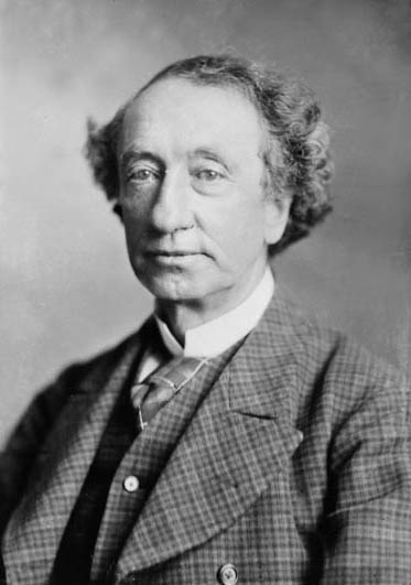 Sir John A. Macdonald circa 1878.